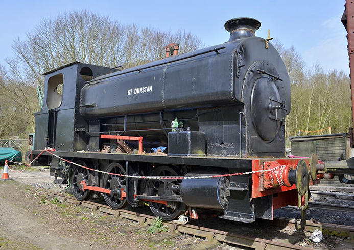 St Dunstan in protective black paint at the East Kent Railway